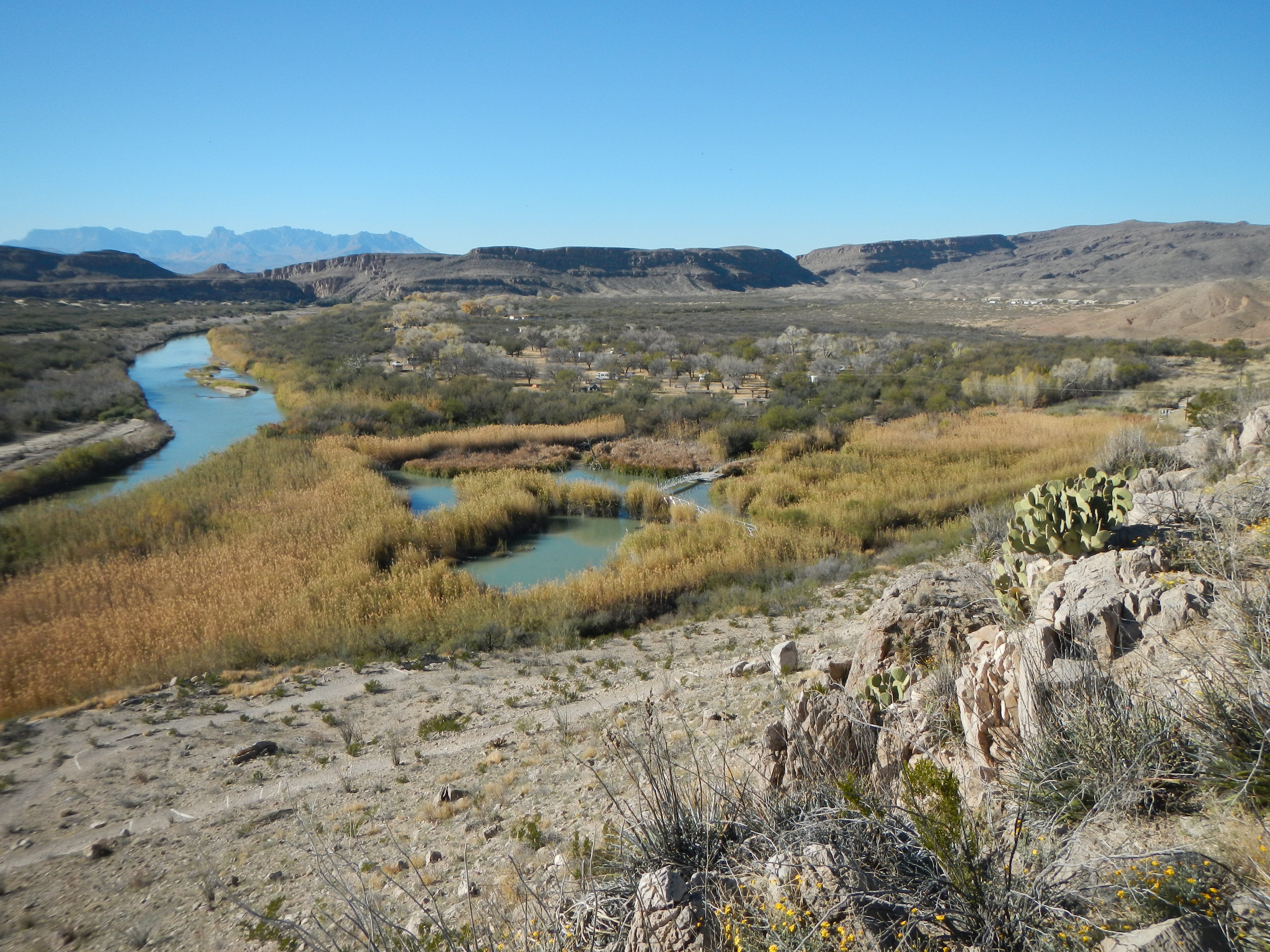 View of Cane Marsh, Village and River